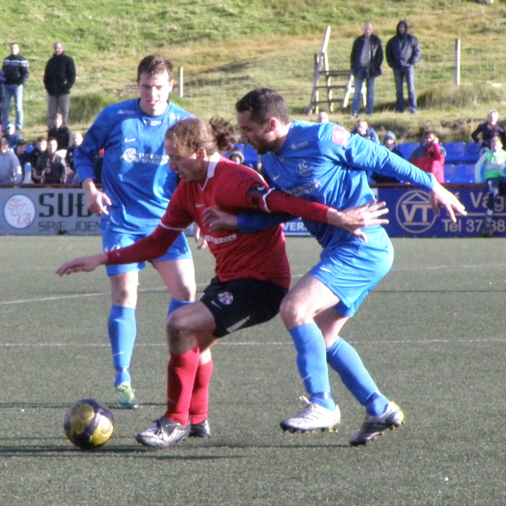 Football (soccer) match in the Faroe Islands in Vodafonedeildin (Faroe Islands Premier League) on 2 October 2010 between FC Suðuroy and B68 Toftir. The match was played on Eiðinum football field in Vágur. The players on the photo are FC Suðuroy player Jón Krosslá Poulsen (to the left in blue), B68 Toftir player Jóhan Dávur Højgaard (in red) and the Georgian football player Mamuka Toronjadze, who currently plays football in the Faroe Islands for FC Suðuroy, he is the man in blue to the right on this photo. FC Suðuroy was fighting for its maintainance in the best Faroese division, they were in the bottom of the division. FC Suðuroy won this match 2-1, and after that they are only one point behind B71 Sandoy, who are number 8 of 10 teams. Number 9 and 10 will be relegated to 1. deild (the second best division). After this match there were only two more matches left of the 2010 season. Føroyskt: Vodafondystur sum var spældur vesturi á Eiðinum í Vági millum FC Suðuroy og B68. FC Suðuroy vann dystin 2-1. Spælararnir á hesi myndini eru frá vinstru: Jón Krosslá Poulsen (FC Suðuroy), Jóhan Dávur Højgaard (B68) og Mamuka Toronjadze (FC Suðuroy).